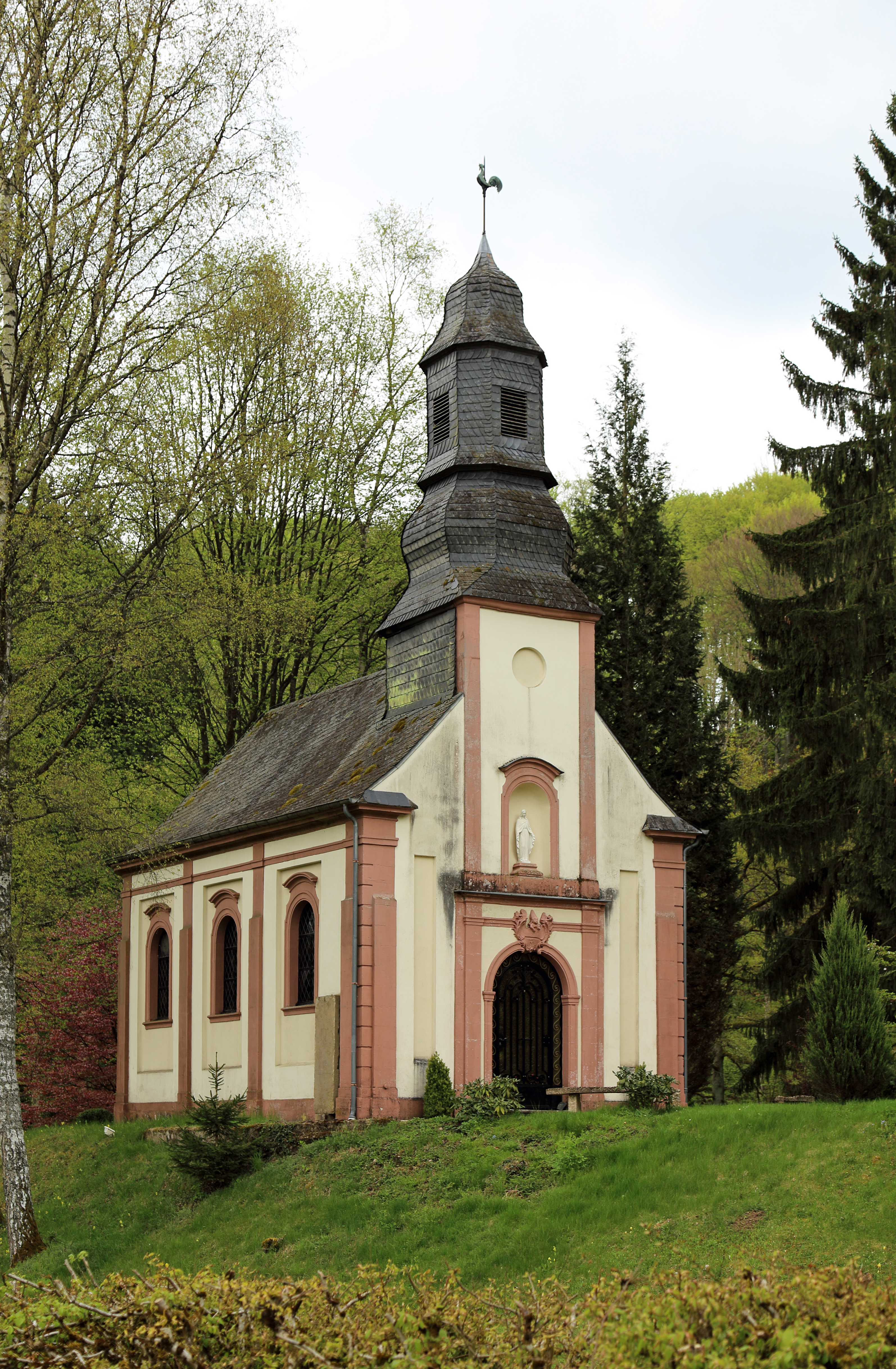 Lauterborn (municipality of Echternach, Grand Duchy of Luxembourg): the castle chapel